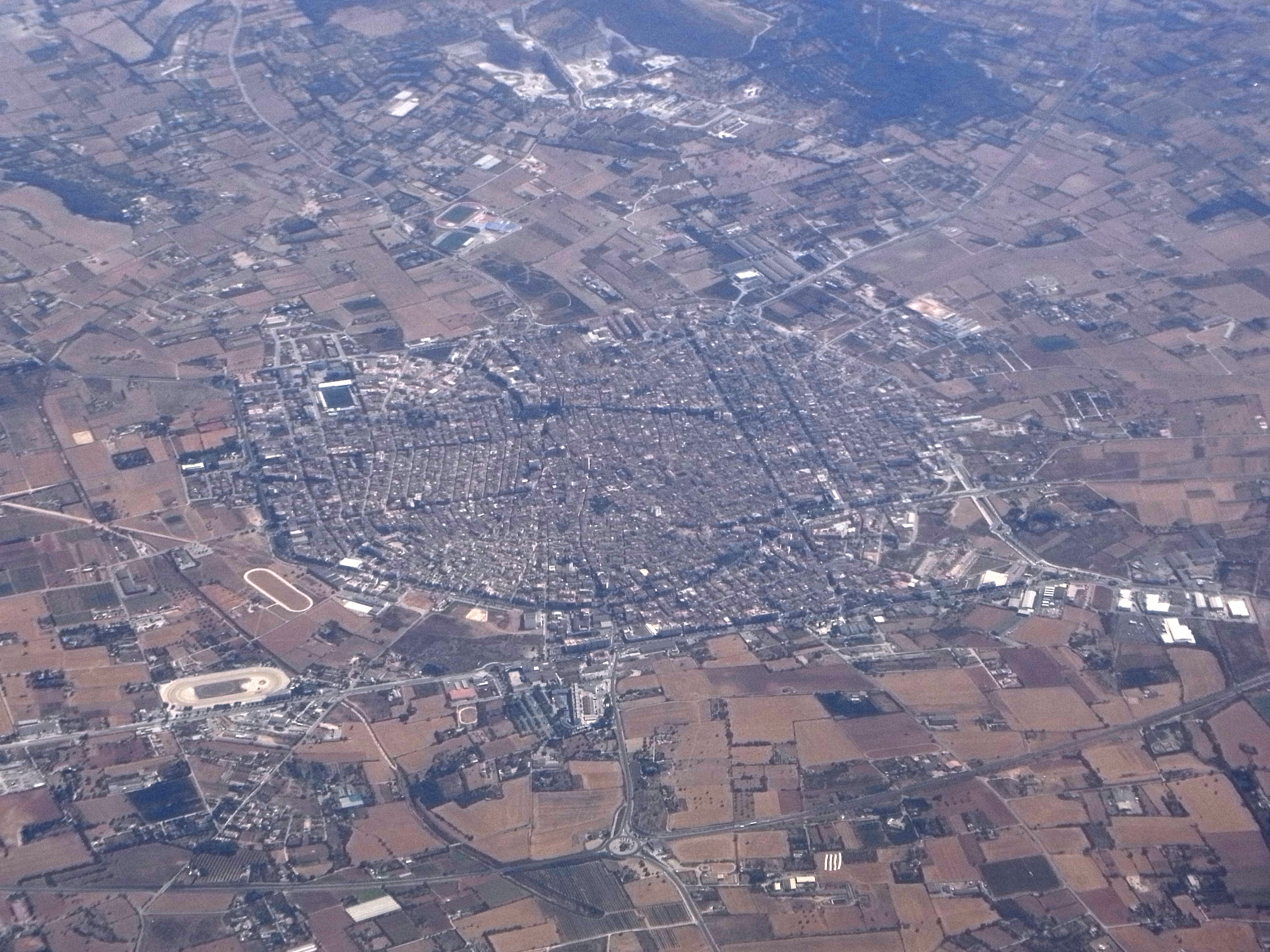 Aerial View of Manacor (Mallorca)